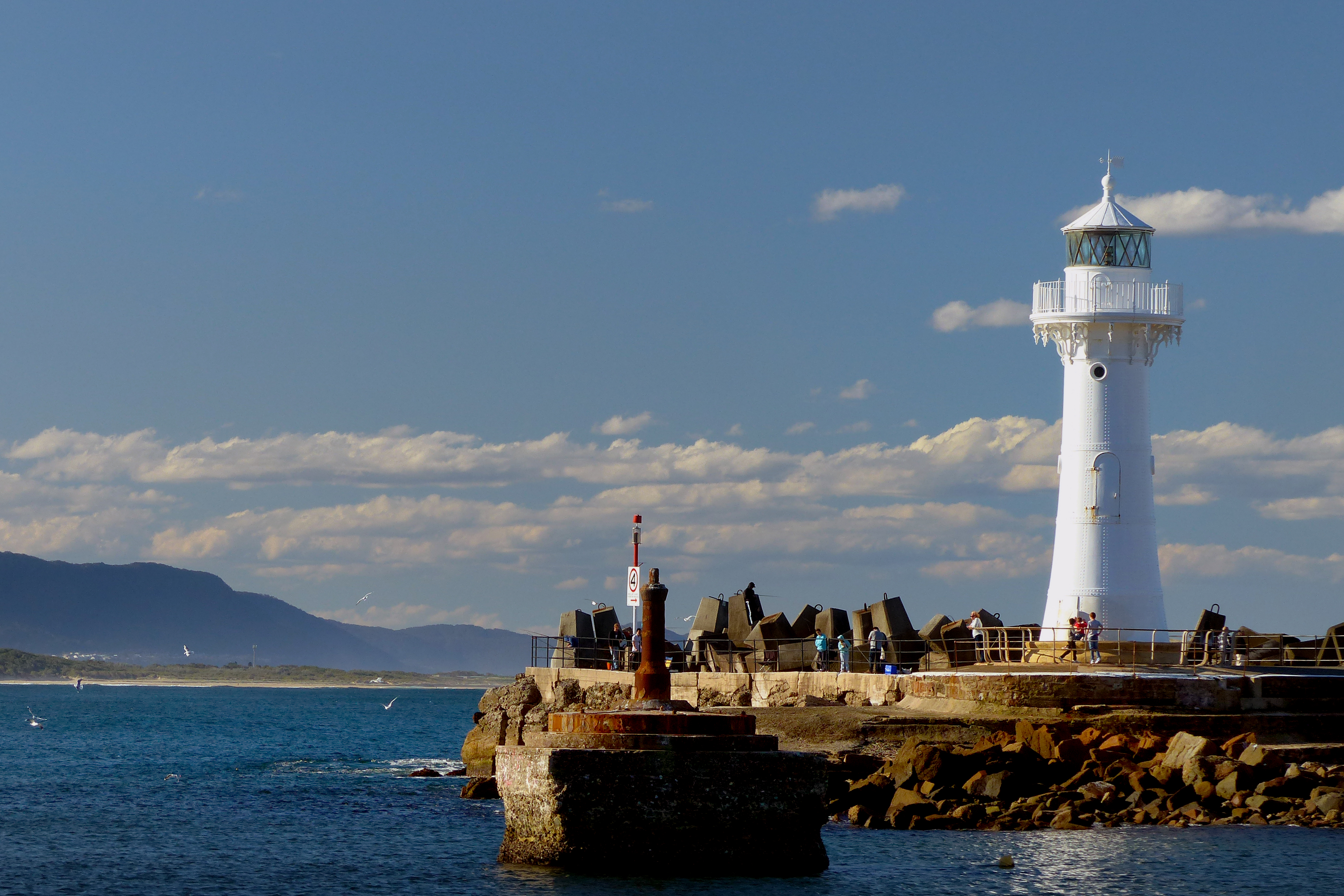 Wollongong Breakwater Lighthouse Year first lit 1872 Deactivated 1974 Wollongong Breakwater Lighthouse, also known as Wollongong Harbour Lighthouse, is a historic lighthouse situated on the southern breakwater of Wollongong Harbour, in Wollongong, a coastal city south of Sydney, New South Wales. Wollongong is the only place in the east of Australia to have two lighthouses located in close proximity of each other, the other being Wollongong Head Lighthouse. While no longer used, the lighthouse was restored in 2002 as operational and is listed an official heritage building. The Wollongong Harbour is home to private vessels and the local fishing fleet in the inner Belmore Basin. South of the city lies Port Kembla, a major steelmaking, minerals, grain and vehicle handling harbour. A further hazard to shipping is an island group known collectively as The Five Islands lying a short distance off the coast.